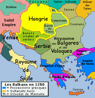 Historic map of Balkan peninsula, 1250